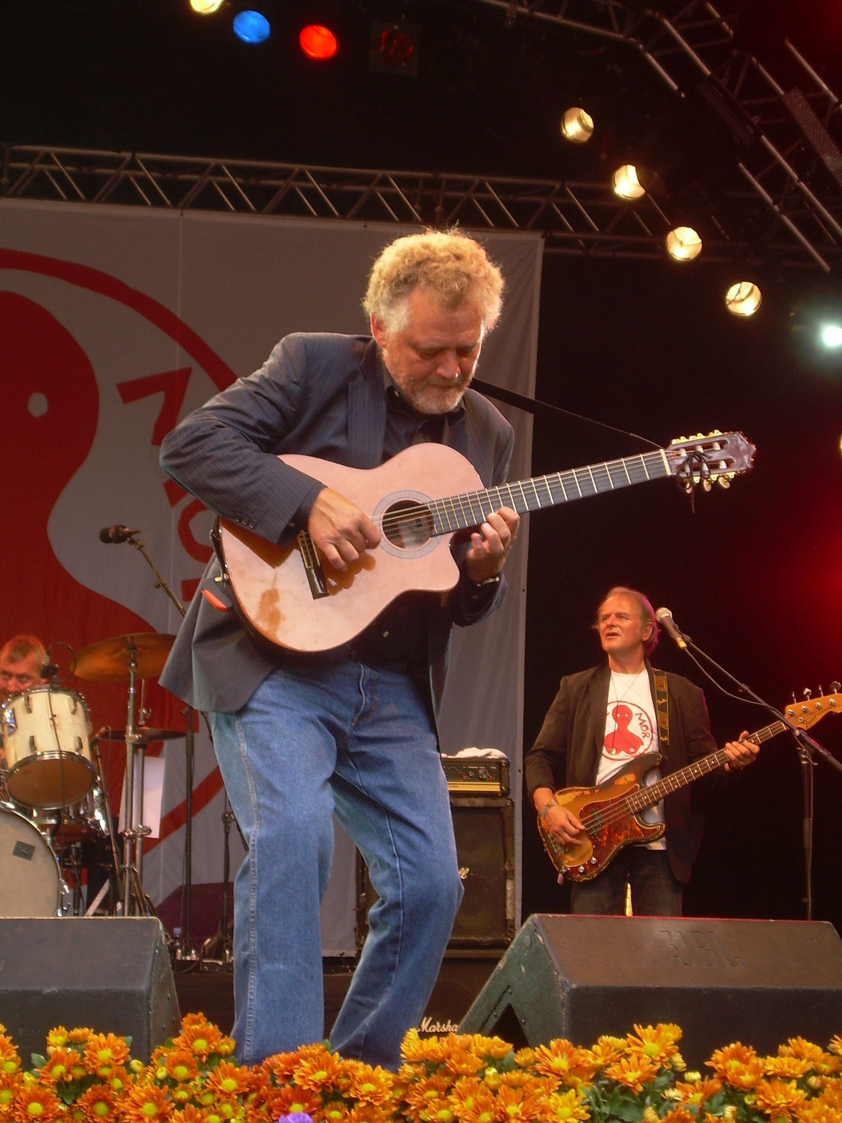 Photo of danish musician Lars Trier taken at Skanderborg Festival 2007, Denmark